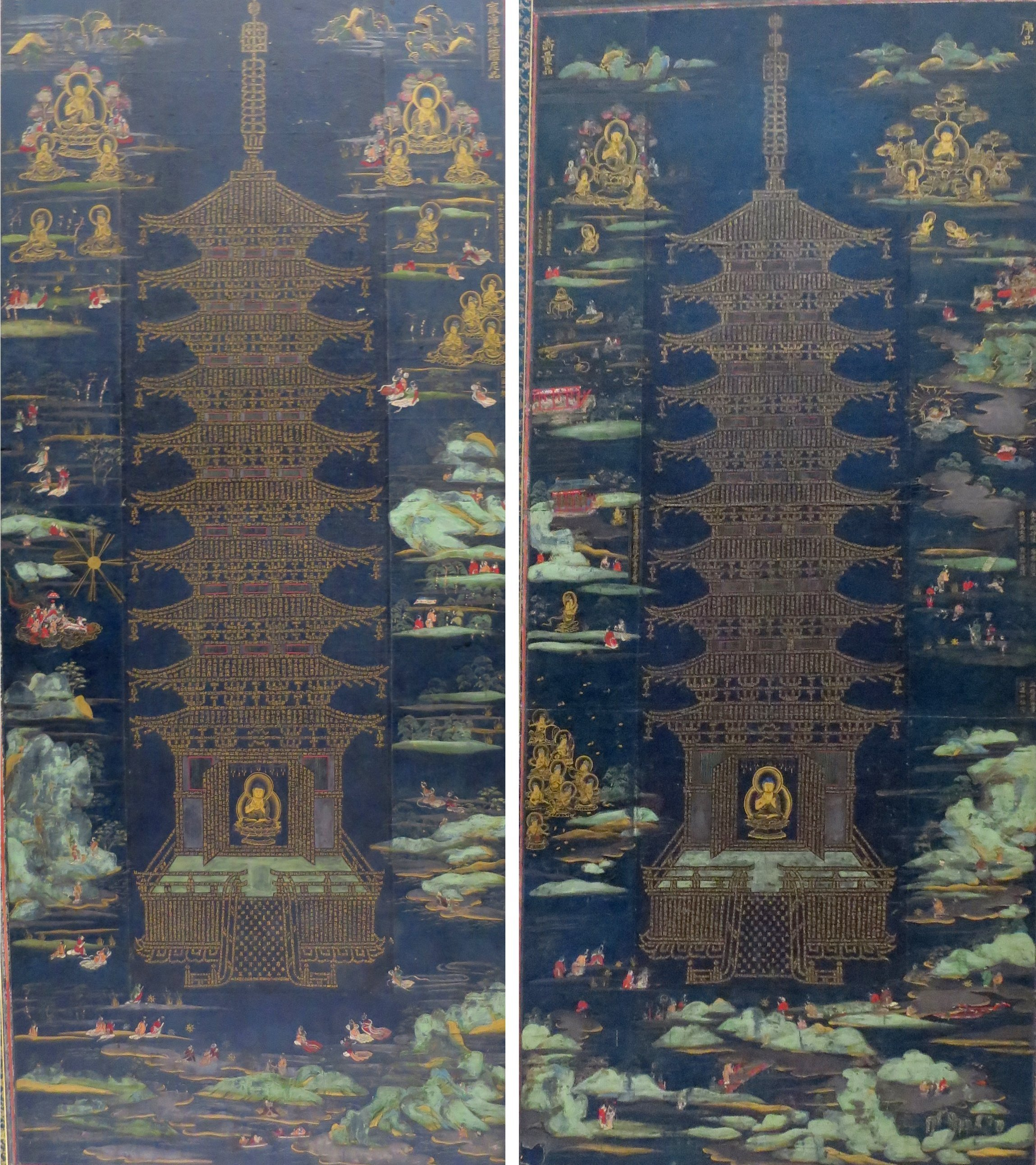 Jeweled pagoda mandala, Sovereign Kings of the Golden Light Sutra, Heian period, 12th century, gold, silver and color on dark blue paper, National Treasure, Daichojuin, Iwate